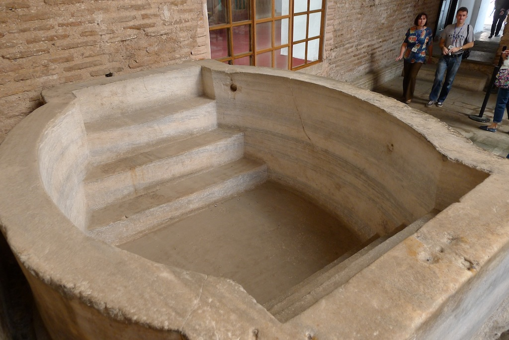 Baptismal font at the Hagia Sopia, Istanbul (Turkey).